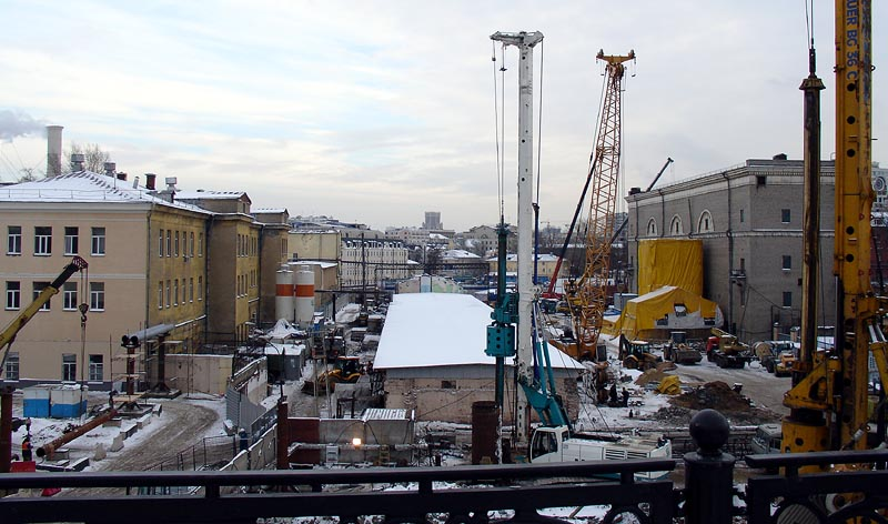 Patriarshy Bridge, Moscow, Russia. Looking south-east: demolition work for continuing the bridge to Yakimanka